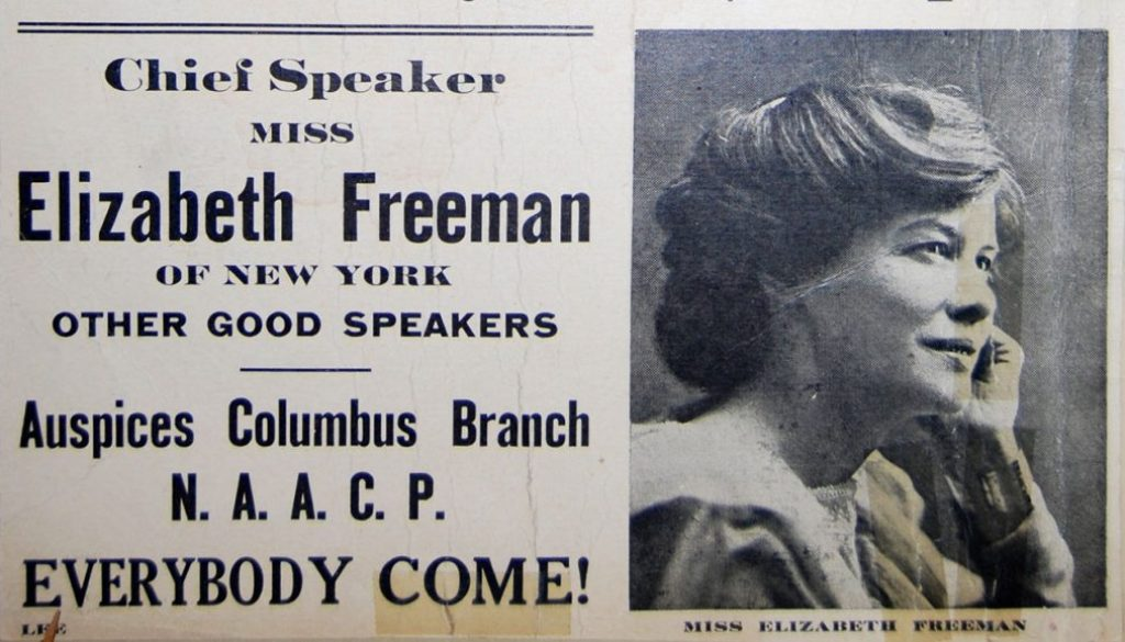 Elisabeth Freeman